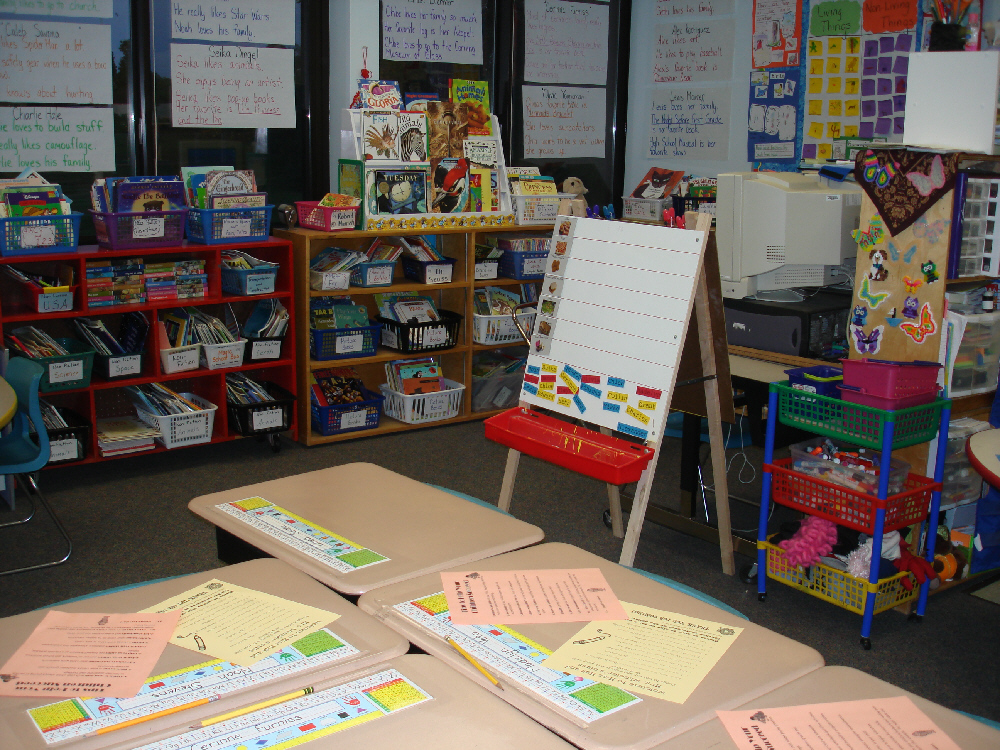 room of a first grade class in an elementary school in the United States